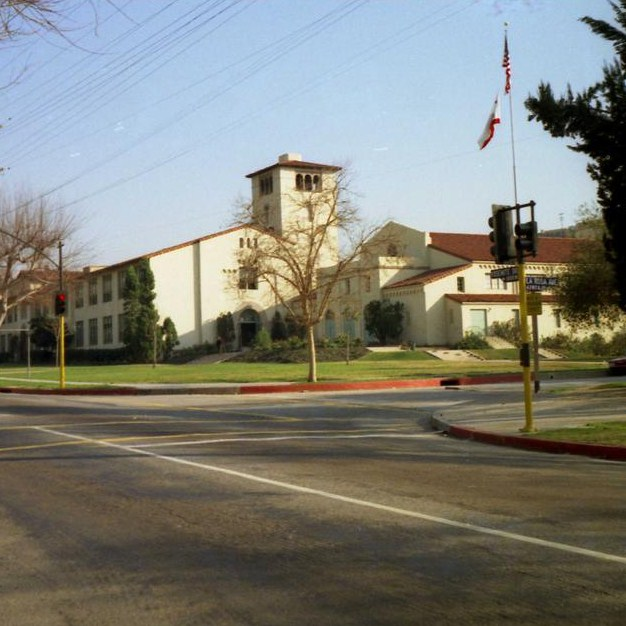 Eagle Rock (Los Angeles) High School (opened 1927), in January 1969